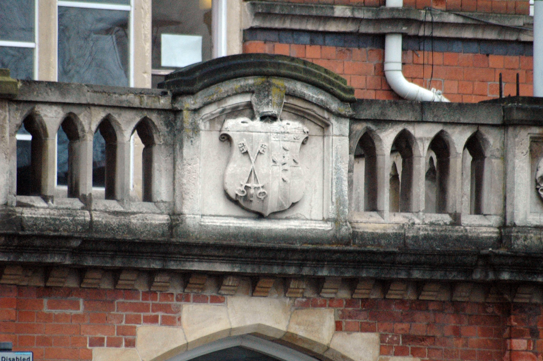 The Sutton Coldfield coat of arms were removed from service when Birmingham absorbed Sutton Coldfield in 1974 however these arms were considered an important asset to the town hall and were kept on the town hall which is located in Sutton Coldfield, Birmingham, England.